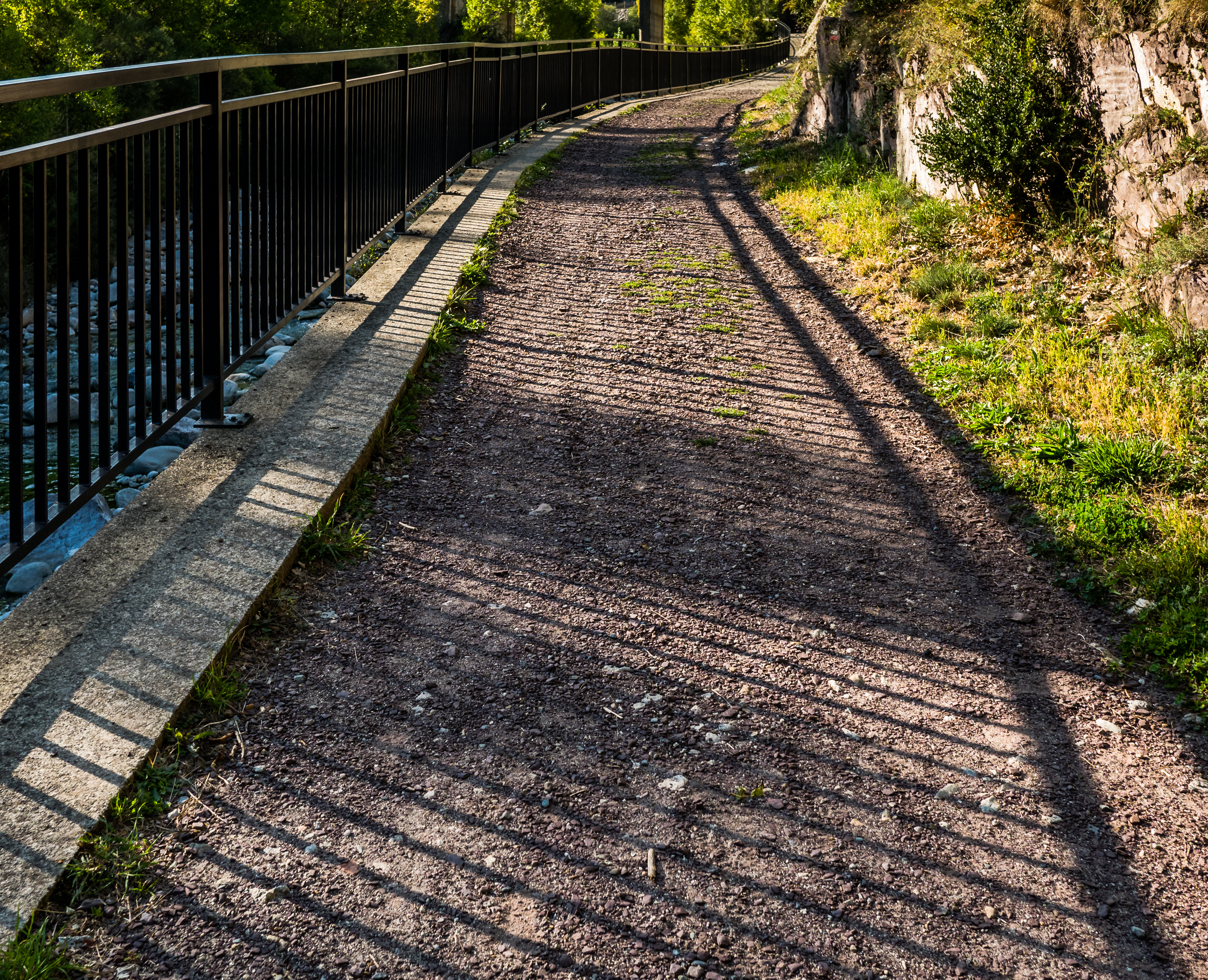 Cinca River trail at Bielsa, Sobrarbe, Huesca, Aragon, Spain